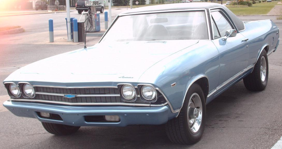 1969 Chevrolet El Camino photographed in Montreal, Quebec, Canada.